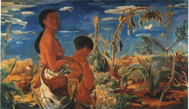 Someday of autumn by Yi in-seong